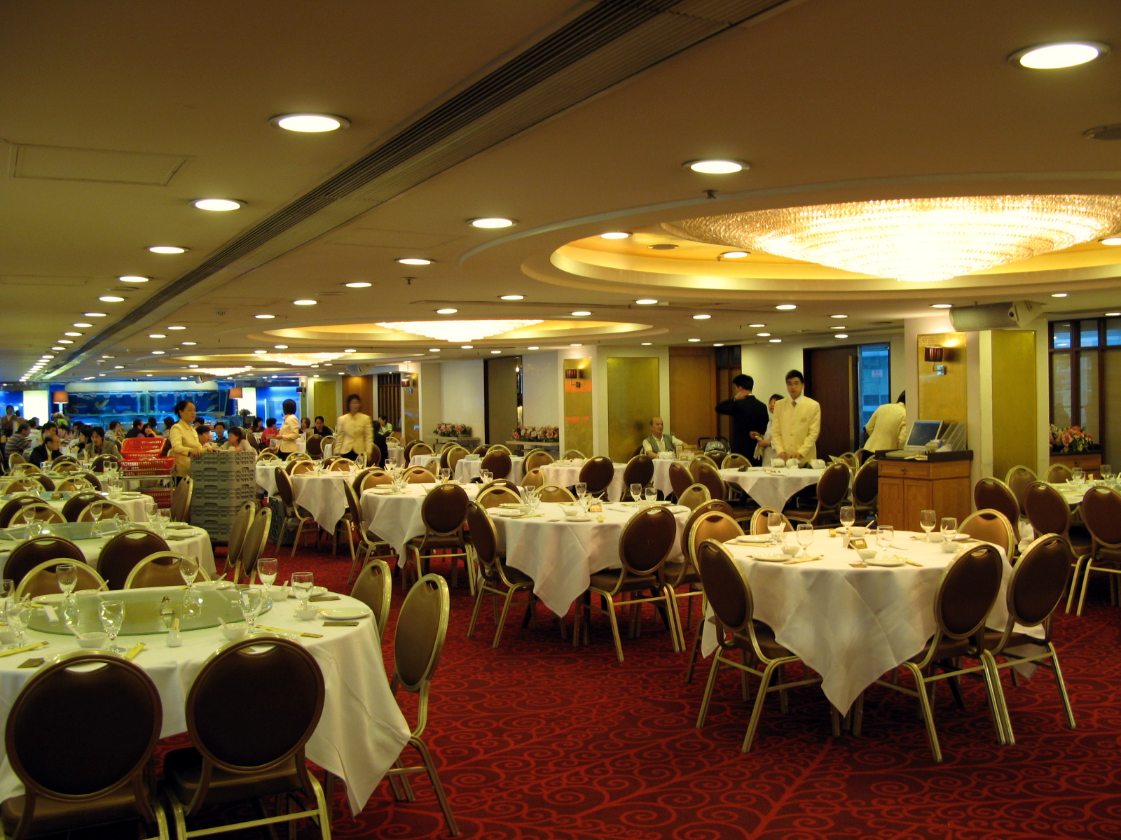 HK Maxims Palace in New Town Plaza